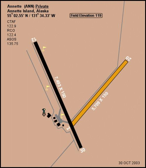 Diagram of Annette Island Airport (FAA: ANN) on Annette Island in Alaska, United States.